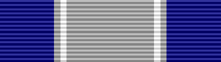 I created this myself. DOS Award for Heroism Ribbon